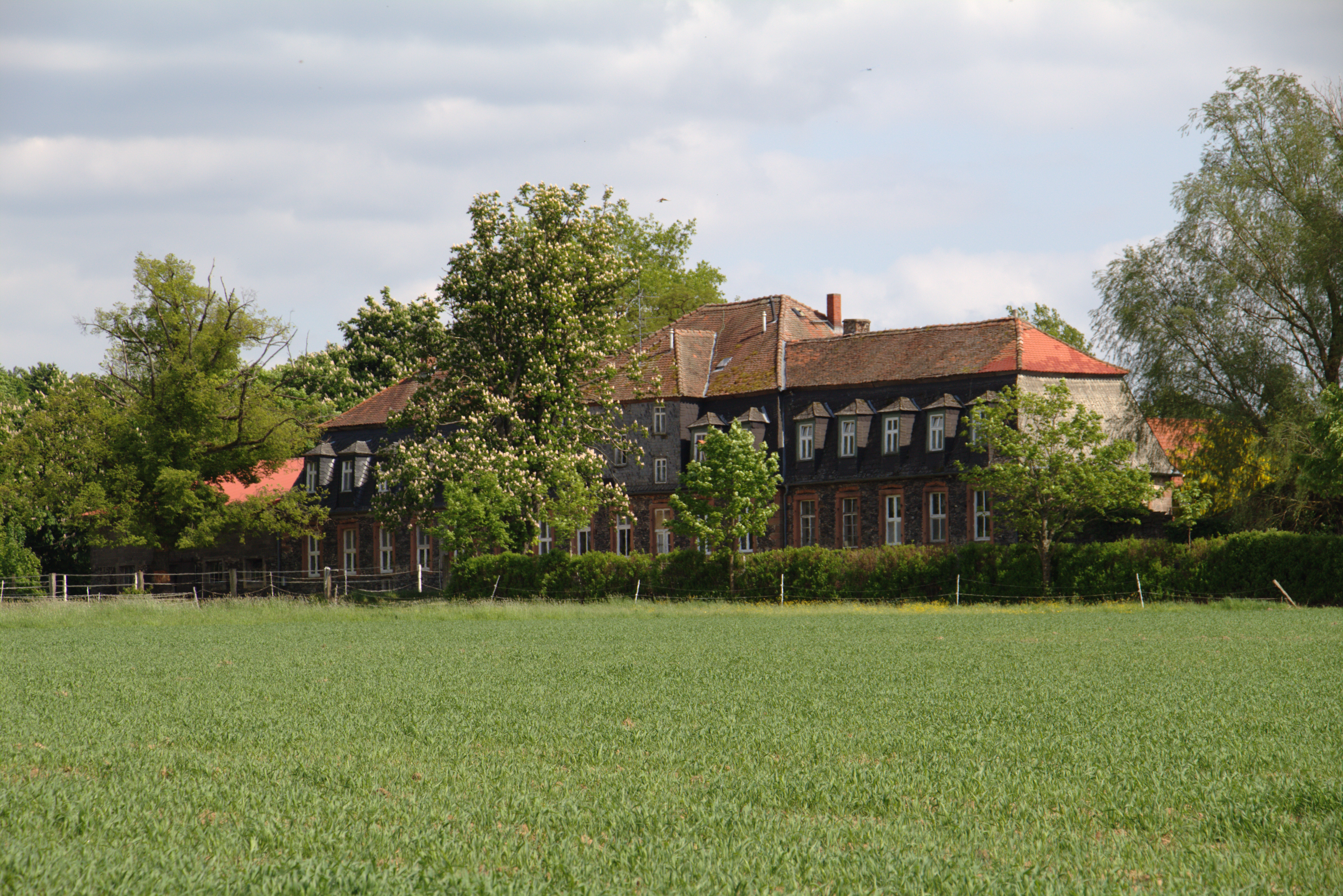 "Gestuet Zwiefalten" in Eichelsachsen, Schotten, Hesse, Germany